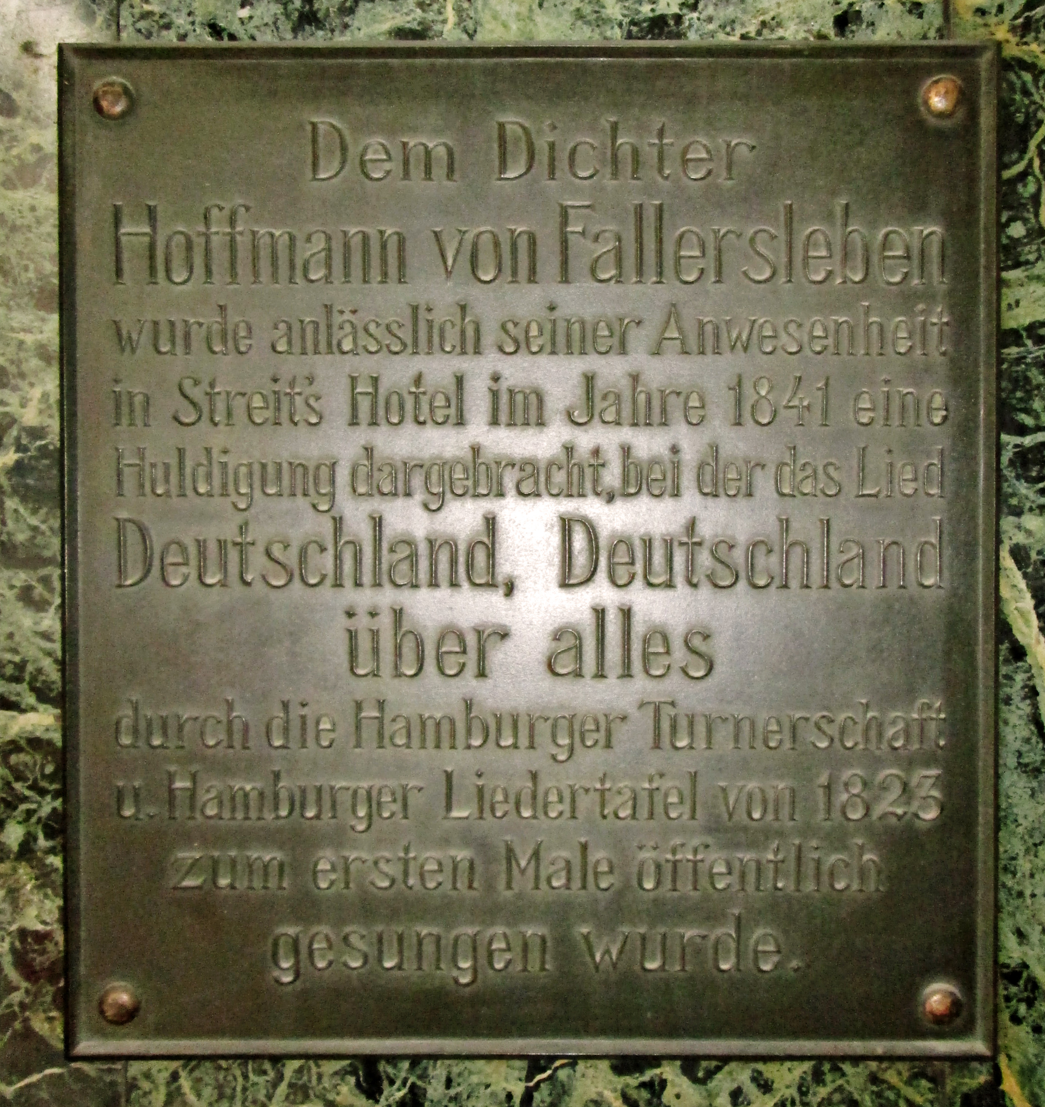 Commemorative plaque on the former Streit's Hotel (Hamburg), commemorating a first performance of Lied der Deutschen